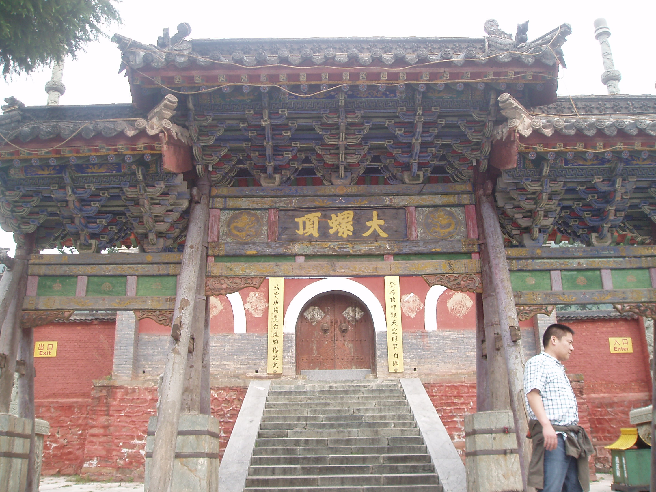 The main gate of Dailuoding Temple in Wutaishan.